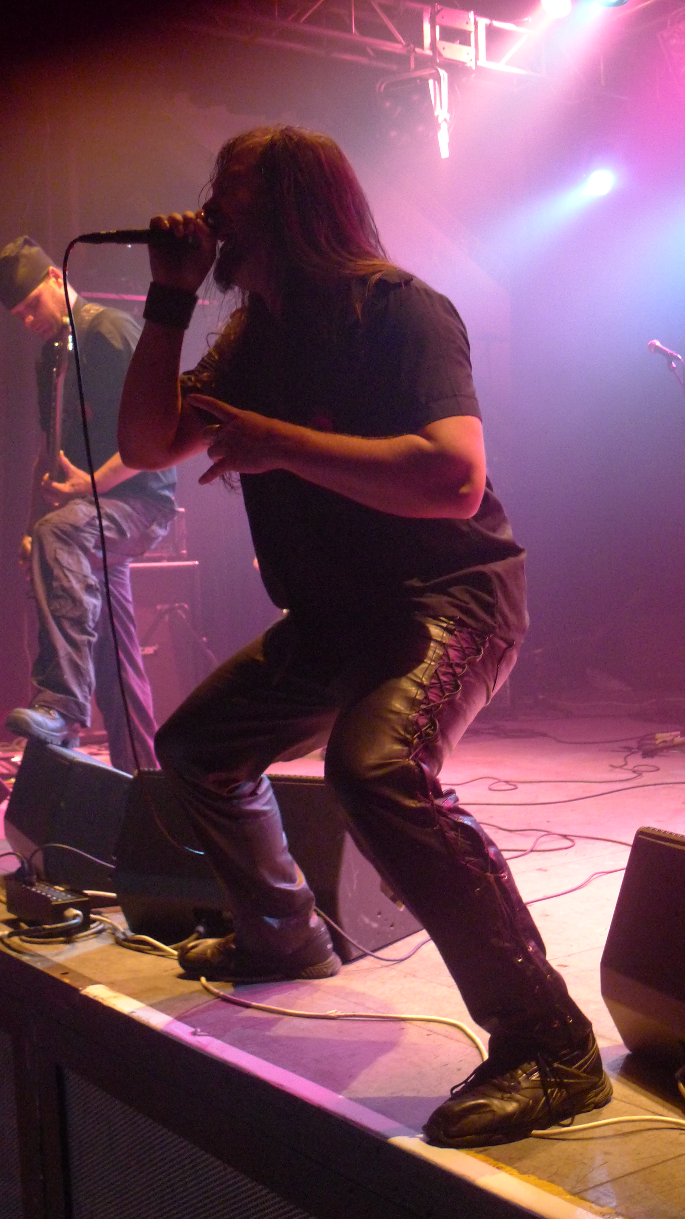 E. Seppänen of the finnish band KYPCK, Nosturi 2012